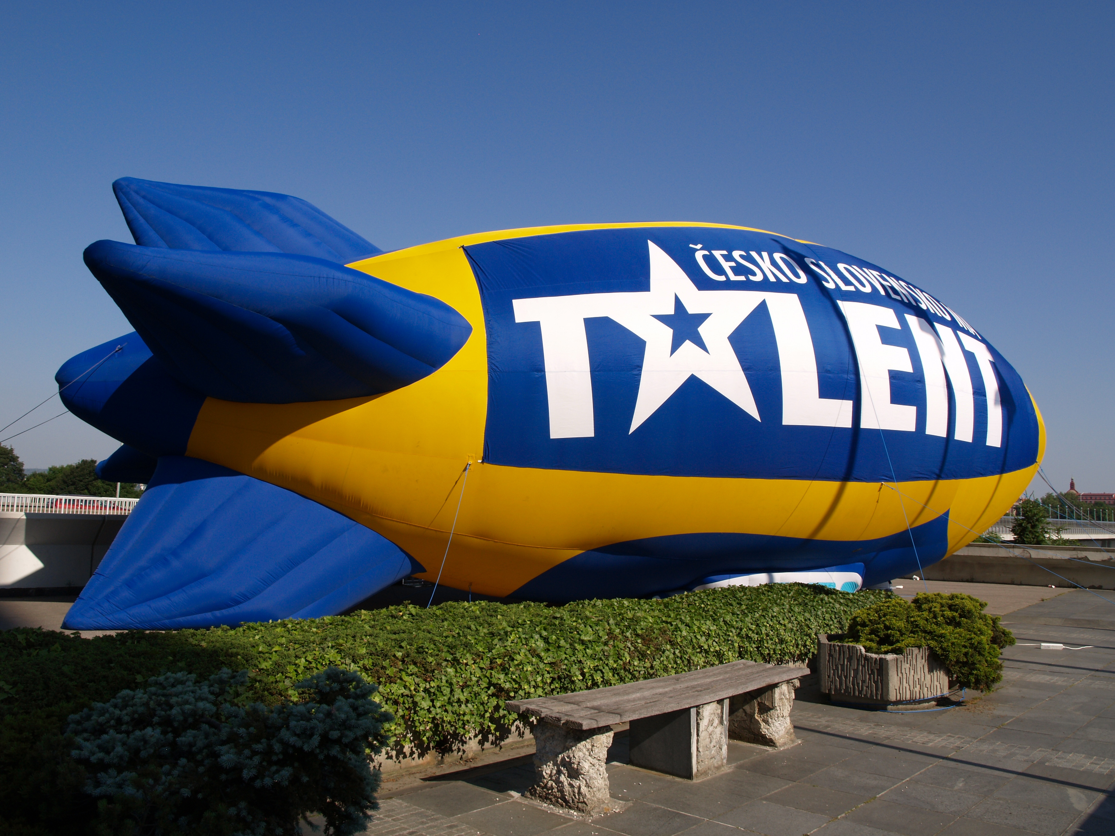 Casting for Czecho-Slovakia's Got Talent in Prague